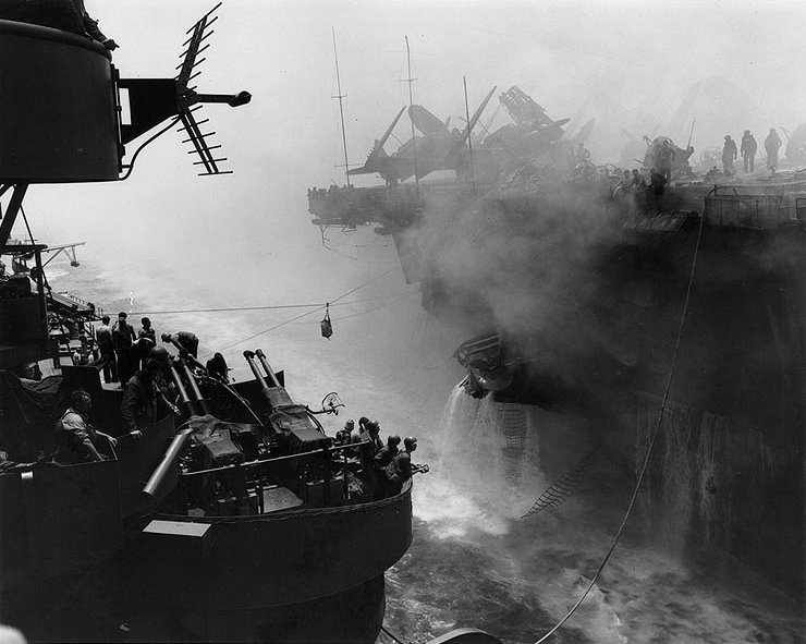 USS Bunker Hill (CV-17): Casualties from "Kamikaze" hits are transferred to USS Wilkes-Barre (CL-103) for medical care, off Okinawa on 11 May 1945. Photographed from Wilkes-Barre's port side amidships, looking aft. Note SB2C aircraft (one with a burned wing) parked aft on Bunker Hill, smashed 40mm gun position on her starboard side, smoke from still-burning fires, and firefighting water streaming over her side. On Wilkes-Barre note the 40mm quad gun mount in the foreground and the electronic antenna above.